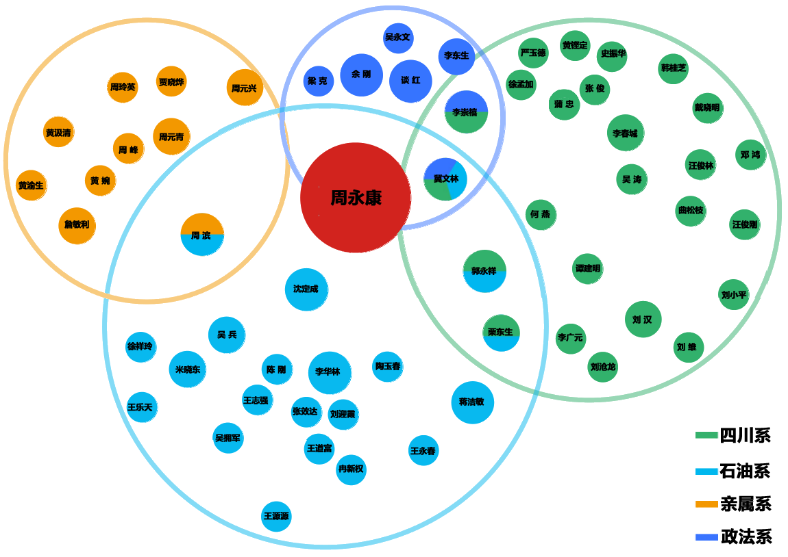 The Chinese version of map of Zhou Yongkang's relationship network. The English version is File:Relative map of Zhou Yongkang.png. 中文（中国大陆）: 周永康关系图（中文版）